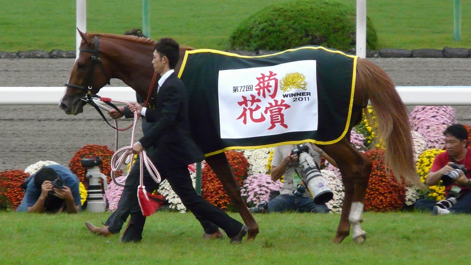 Orfevre after winning the 2011 Kikuka Sho horserace